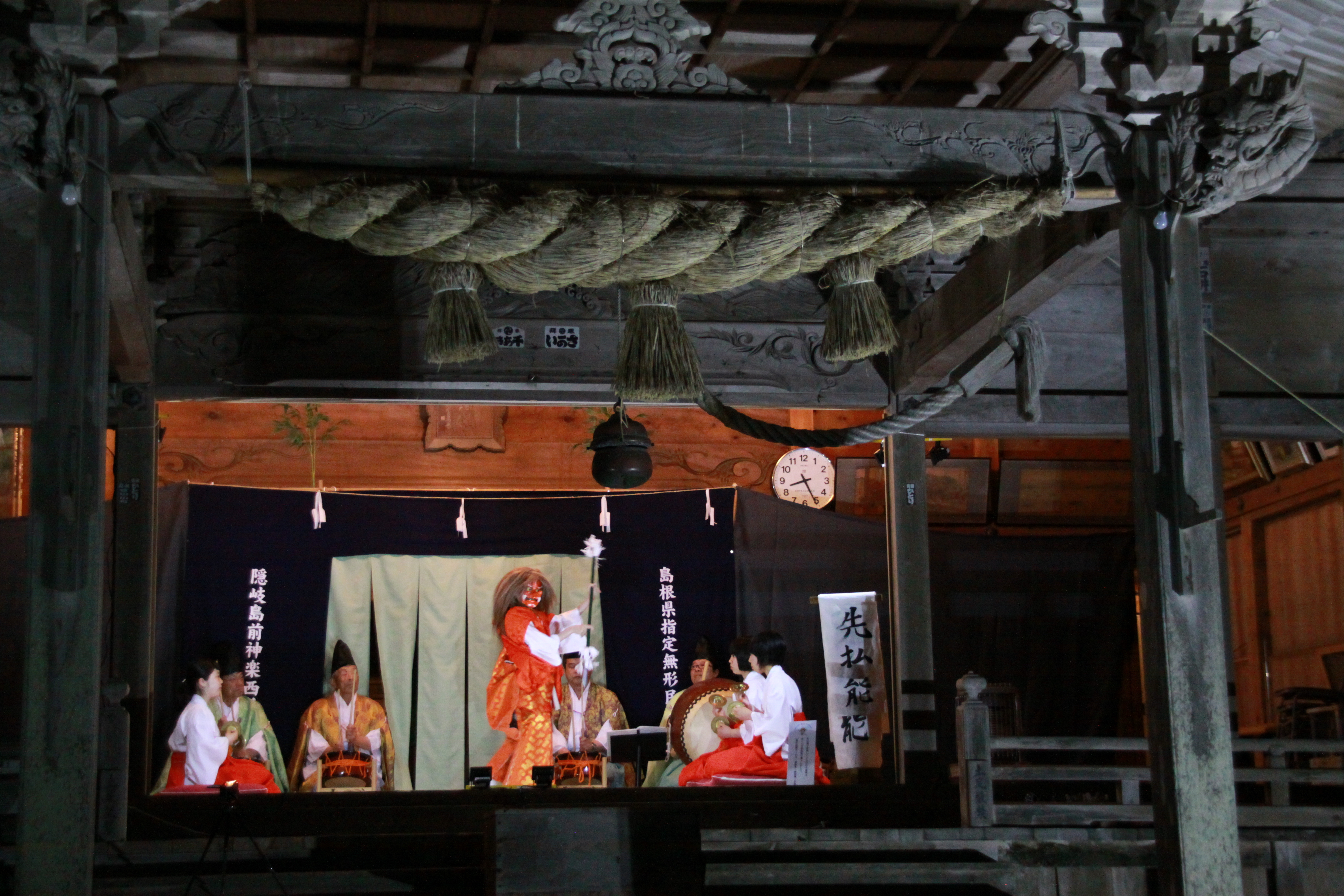 Oki-Dozen Kagura, Yurahime Shrine, Nishinoshima